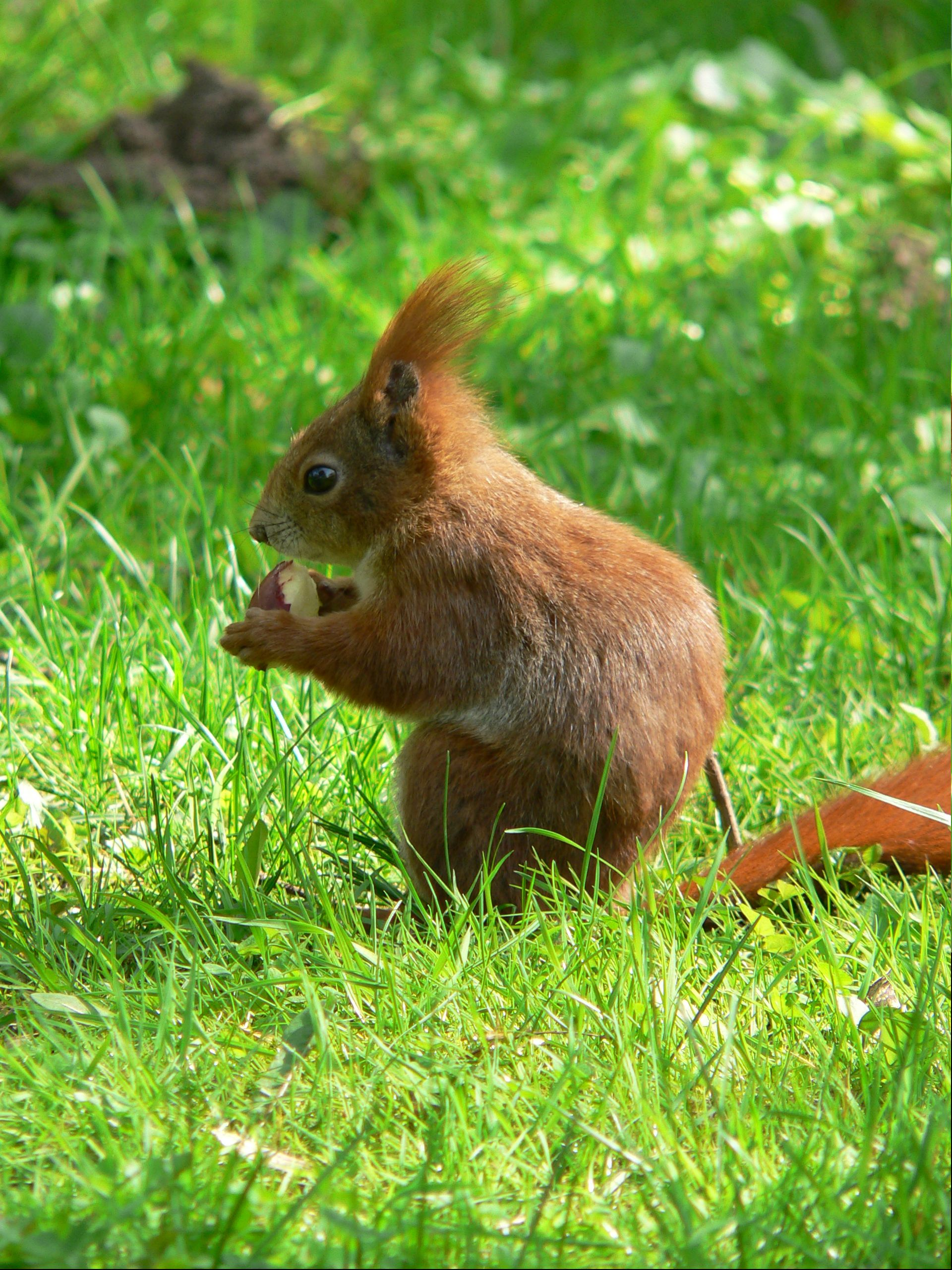 Red squirrel.